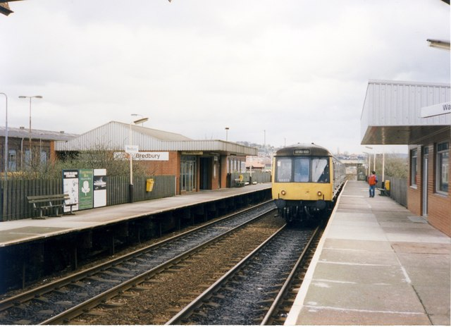 Bredbury railway station Original description: Bredbury station